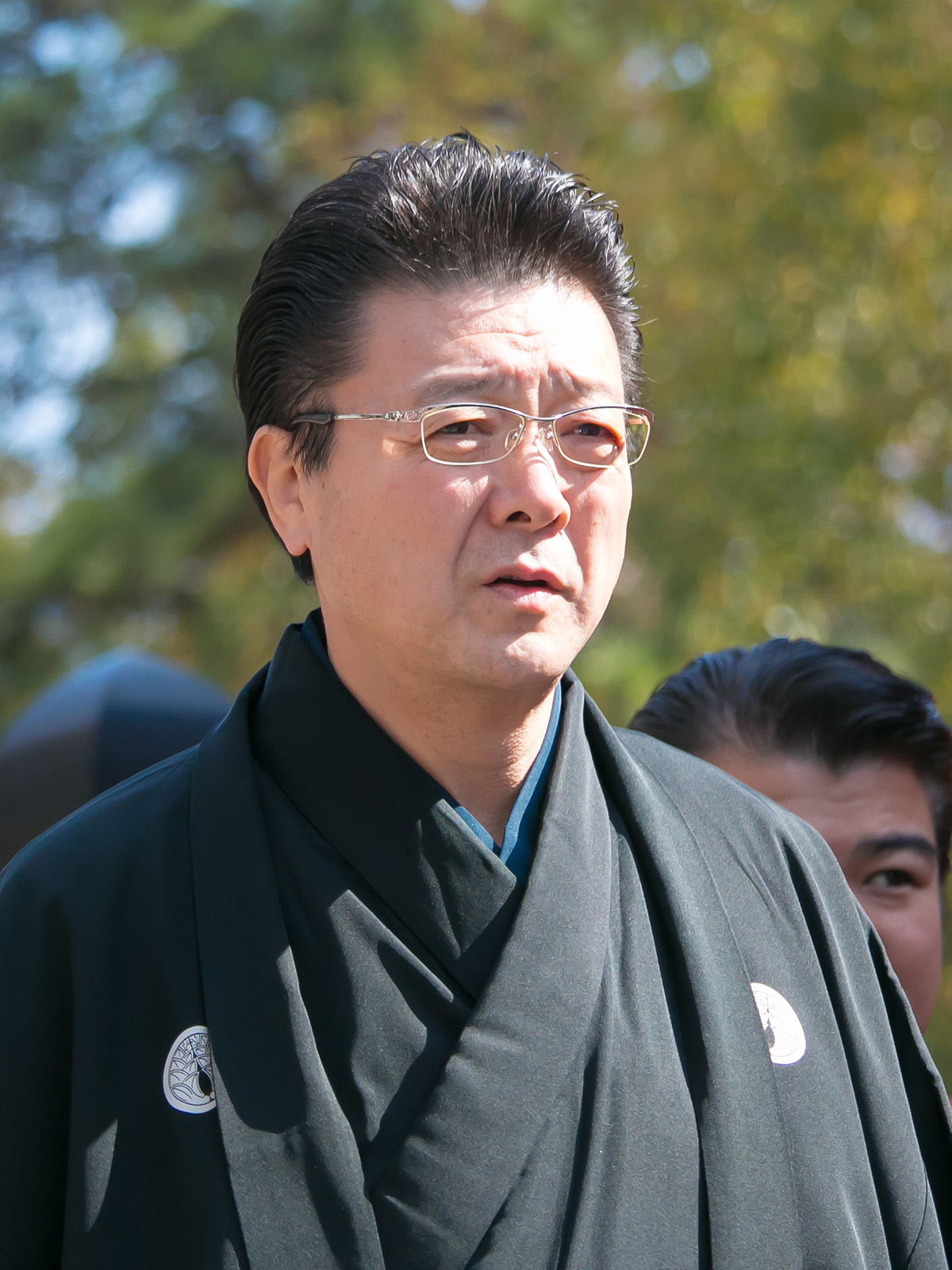 Asahifuji Seiya (now the head coach of Isegahama stable) in Sumiyoshi taisha.